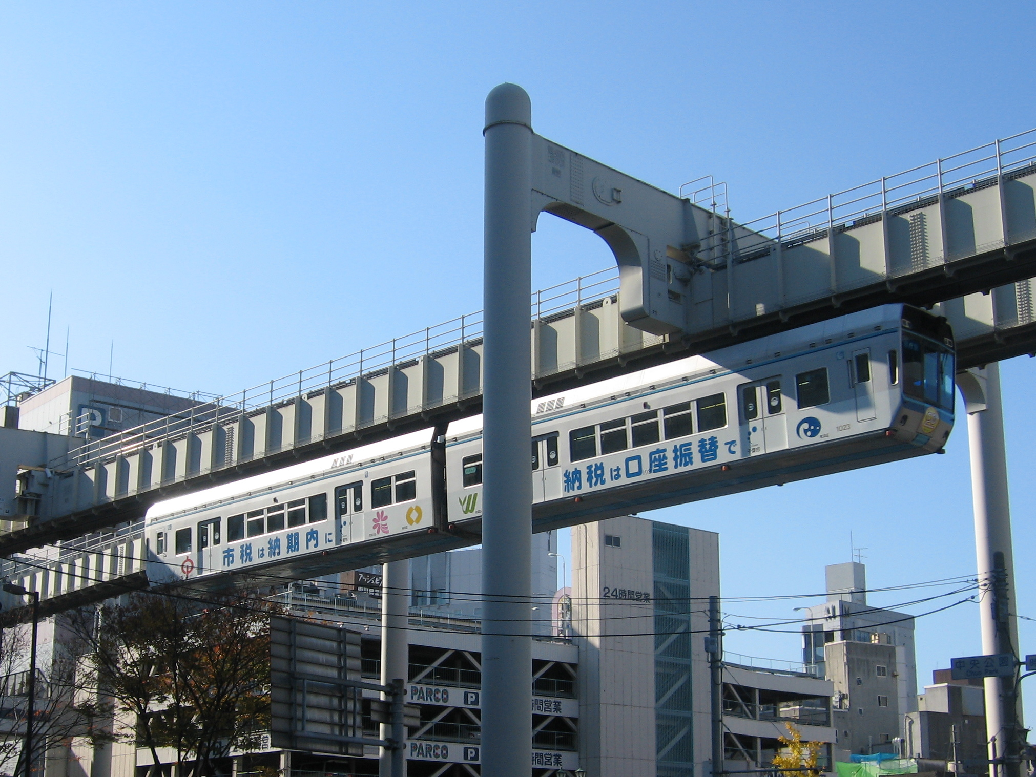 Chiba Urban Monorail